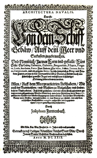 Joseph Furttenbach Architectura Navalis book frontispiece